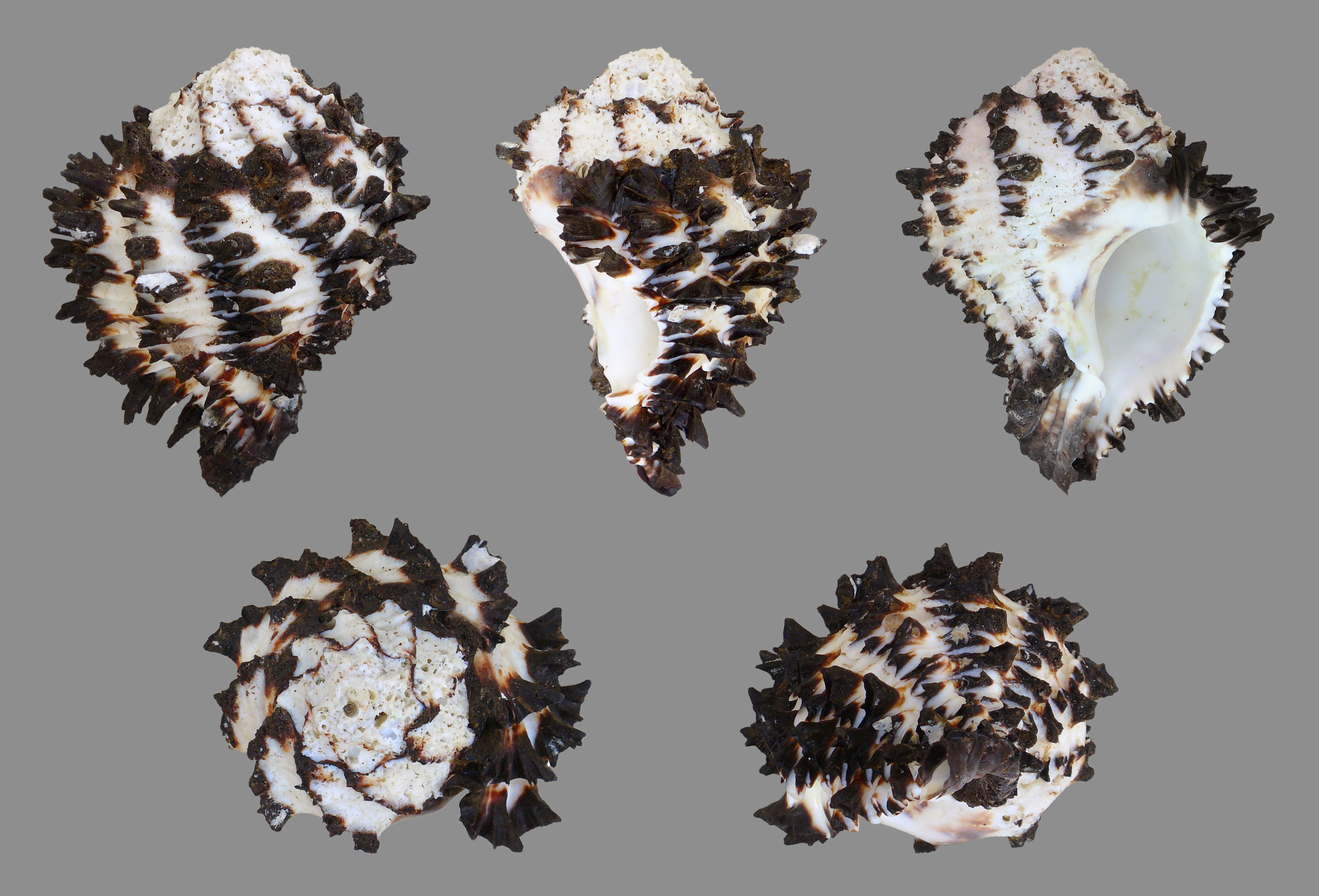 Radish Murex; Length 9.5 cm; Originating from Pacific Coast of Central America; Shell of own collection, therefore not geocoded. Dorsal, lateral (right side), ventral, back, and front view.